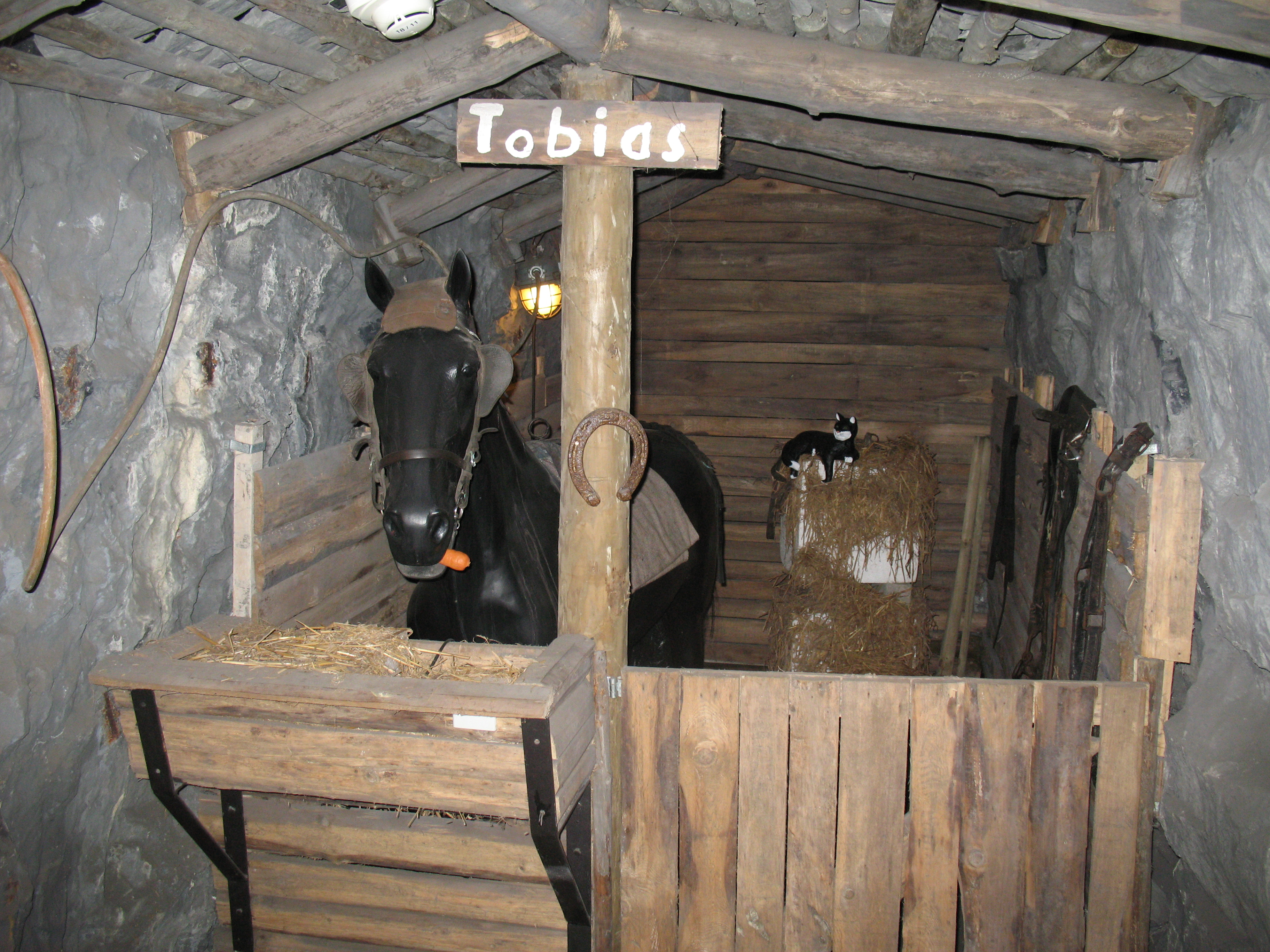 Mining horse Tobias, German Mining Museum in Bochum